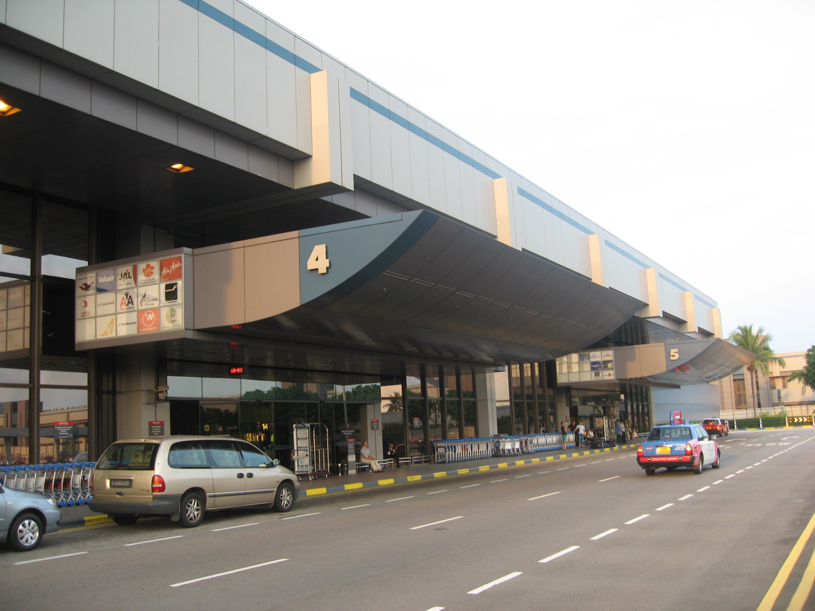 Singapore Changi Airport, Terminal 1, Departure Driveway.